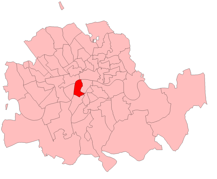 A map of Lambeth North constituency within the Metropolitan Board of Works area, as it existed from 1885 to 1918.